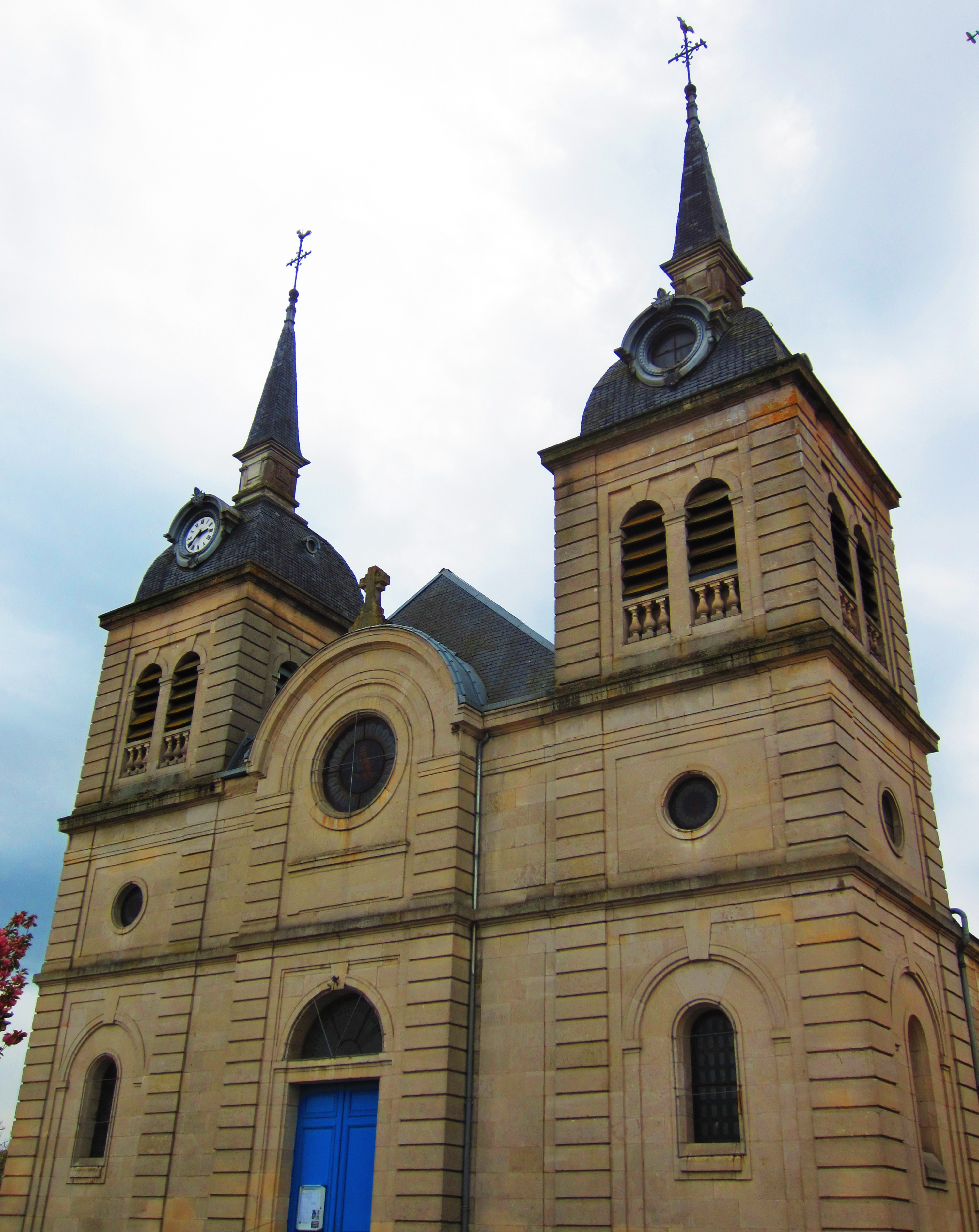 Fresnes Woevre church